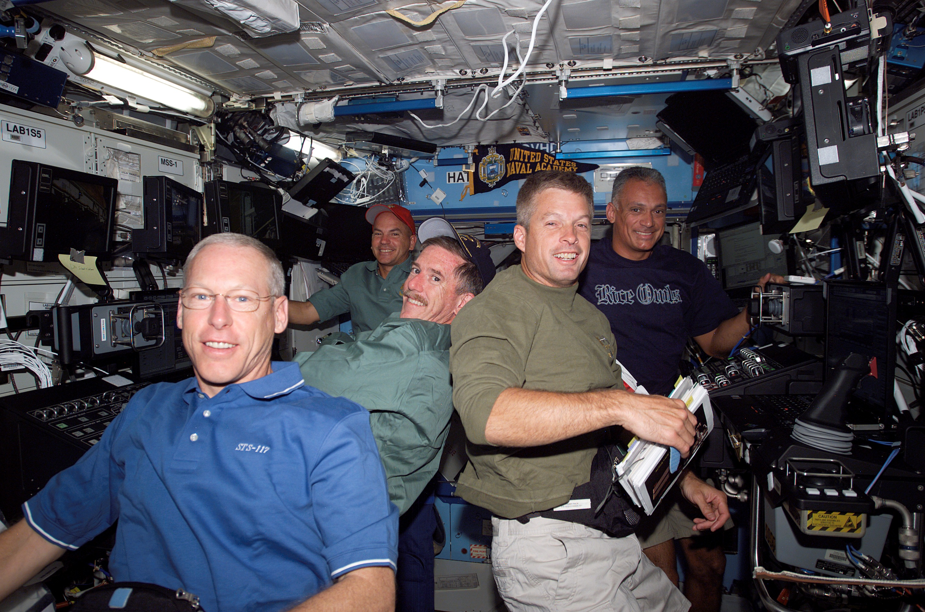 STS-117 crewmembers take a moment to pose for a photo while working various tasks in the Destiny laboratory of the International Space Station during flight day five activities while Space Shuttle Atlantis was docked with the station. Pictured at left are astronauts Patrick Forrester (foreground), Jim Reilly, both mission specialists; and Rick Sturckow, commander. On the right are astronauts Steven Swanson (foreground) and John "Danny" Olivas, both mission specialists.